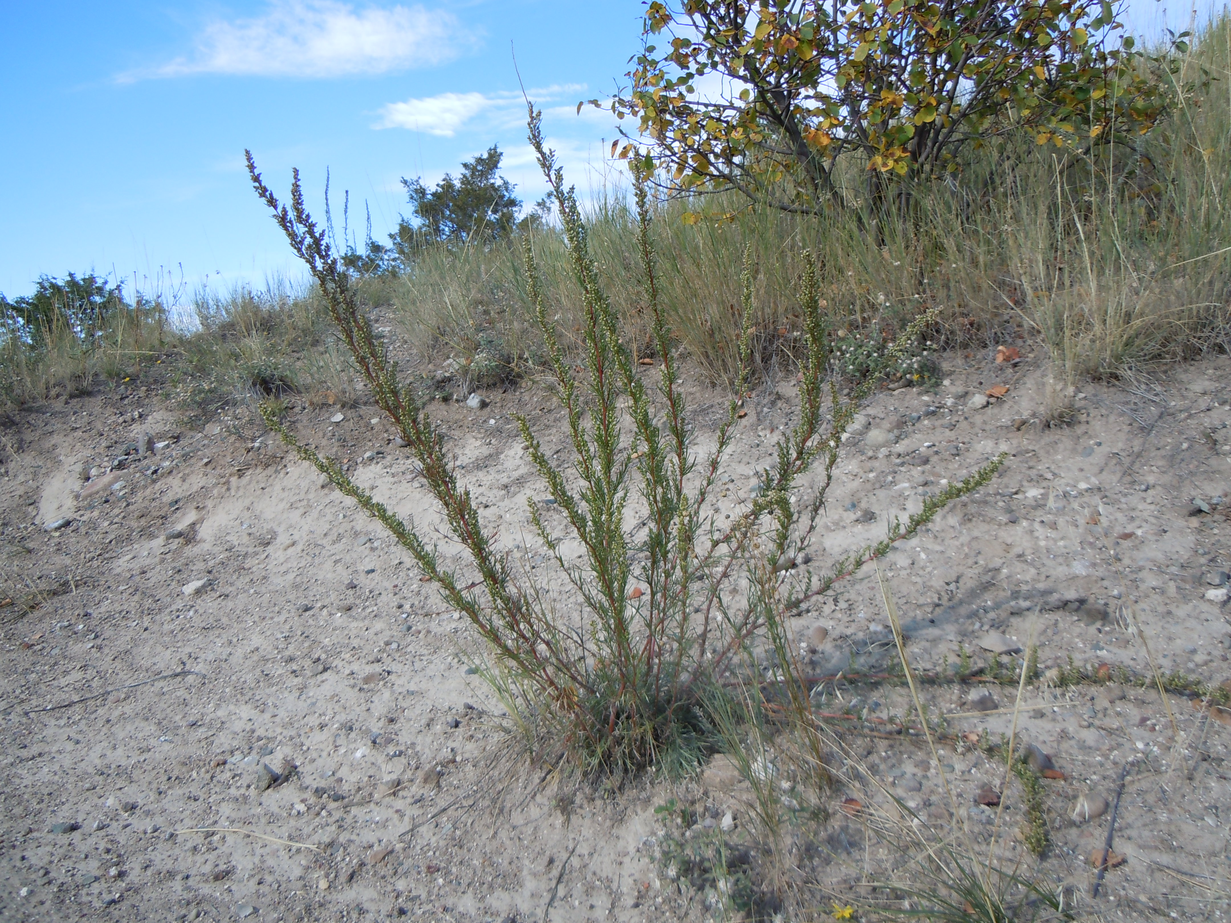 Artemisia campestris inhabits loose soils from gravelly to clayey just as long as disturbance, slope, or texture prevents soil compaction.